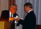 Egon Ditt honoring Reinhold Hoffmann, Senior Chess World Championship 1997 at Bad Wildbad, Photographer Gerhard Hund.